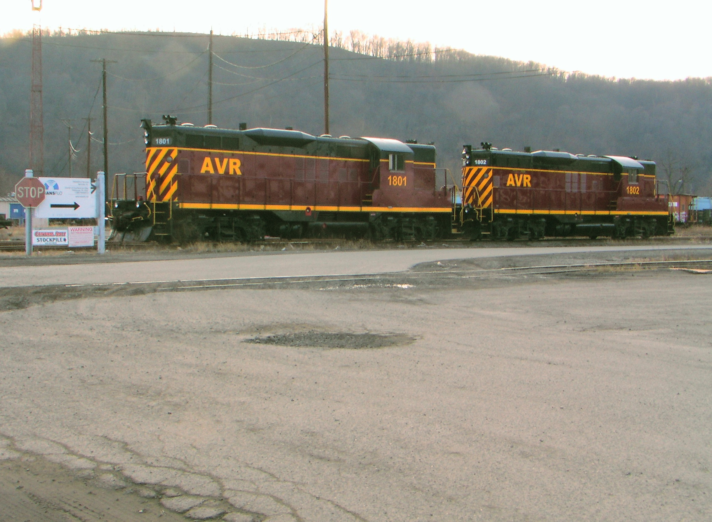 PixOnTrax